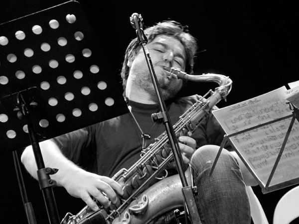 Liudas Mockūnas in Aarhus Denmark 2010